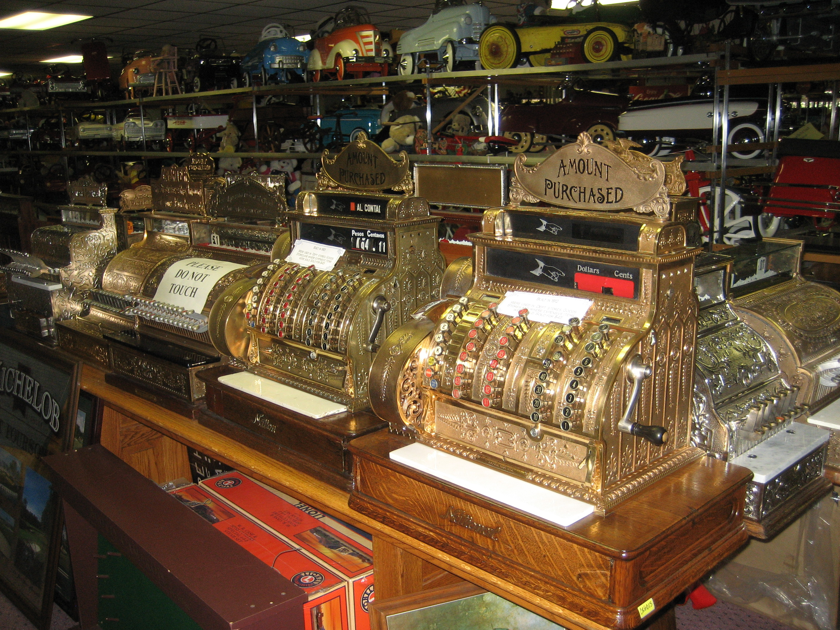 Display of old cash registers at Tallahassee Automobile Museum.